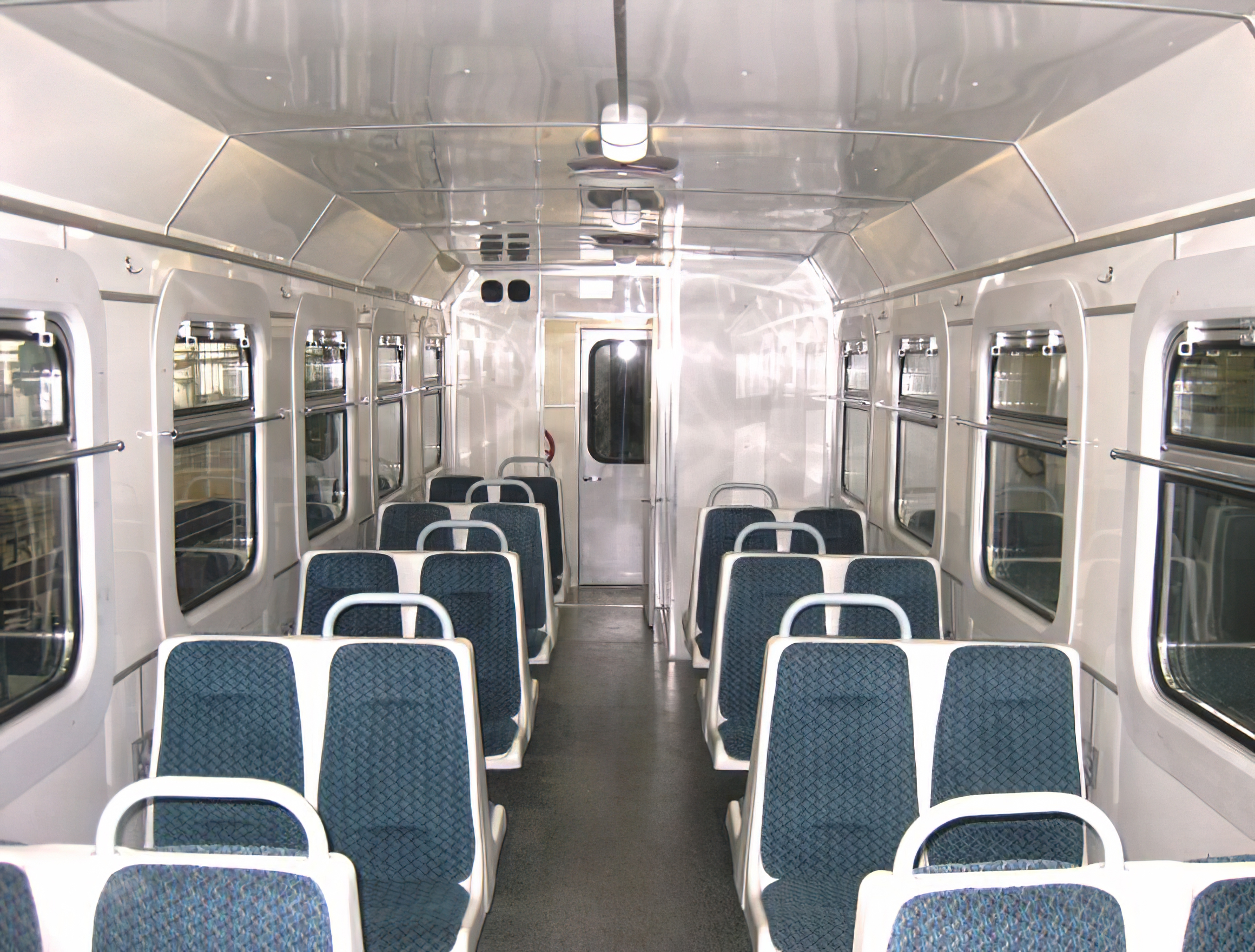 VP750 railway wagon interior.